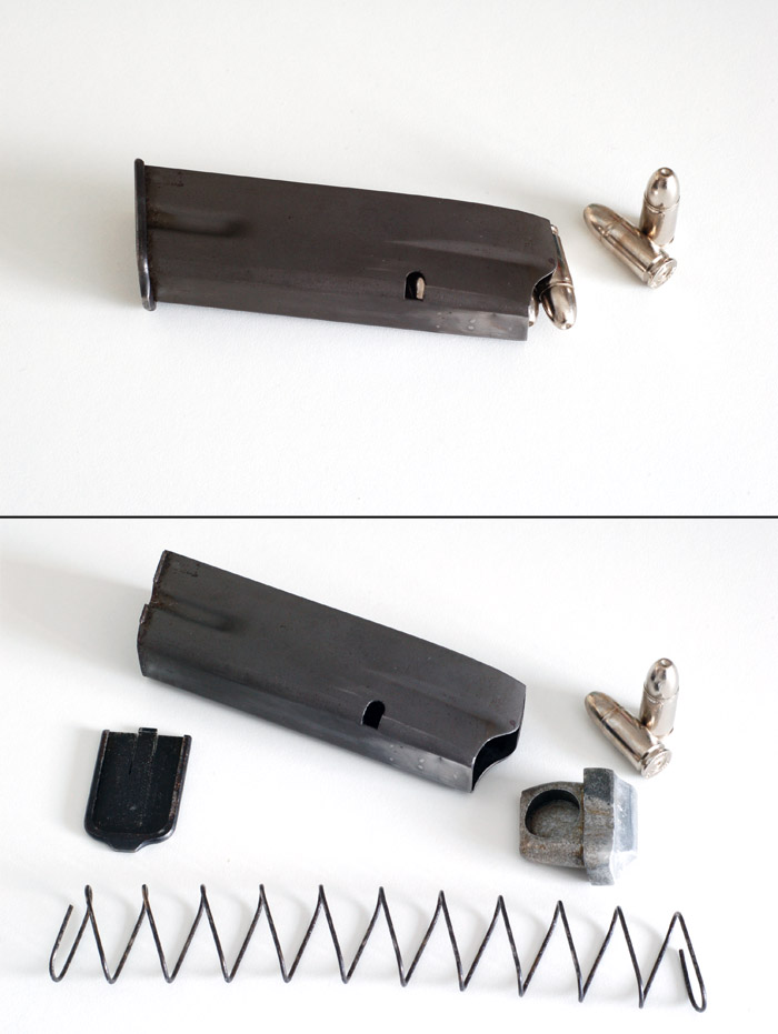 Top half is the assembled magazine with five cartridges inserted, bottom half is the magazine taken apart. The ammunition is inert training/handling rounds.